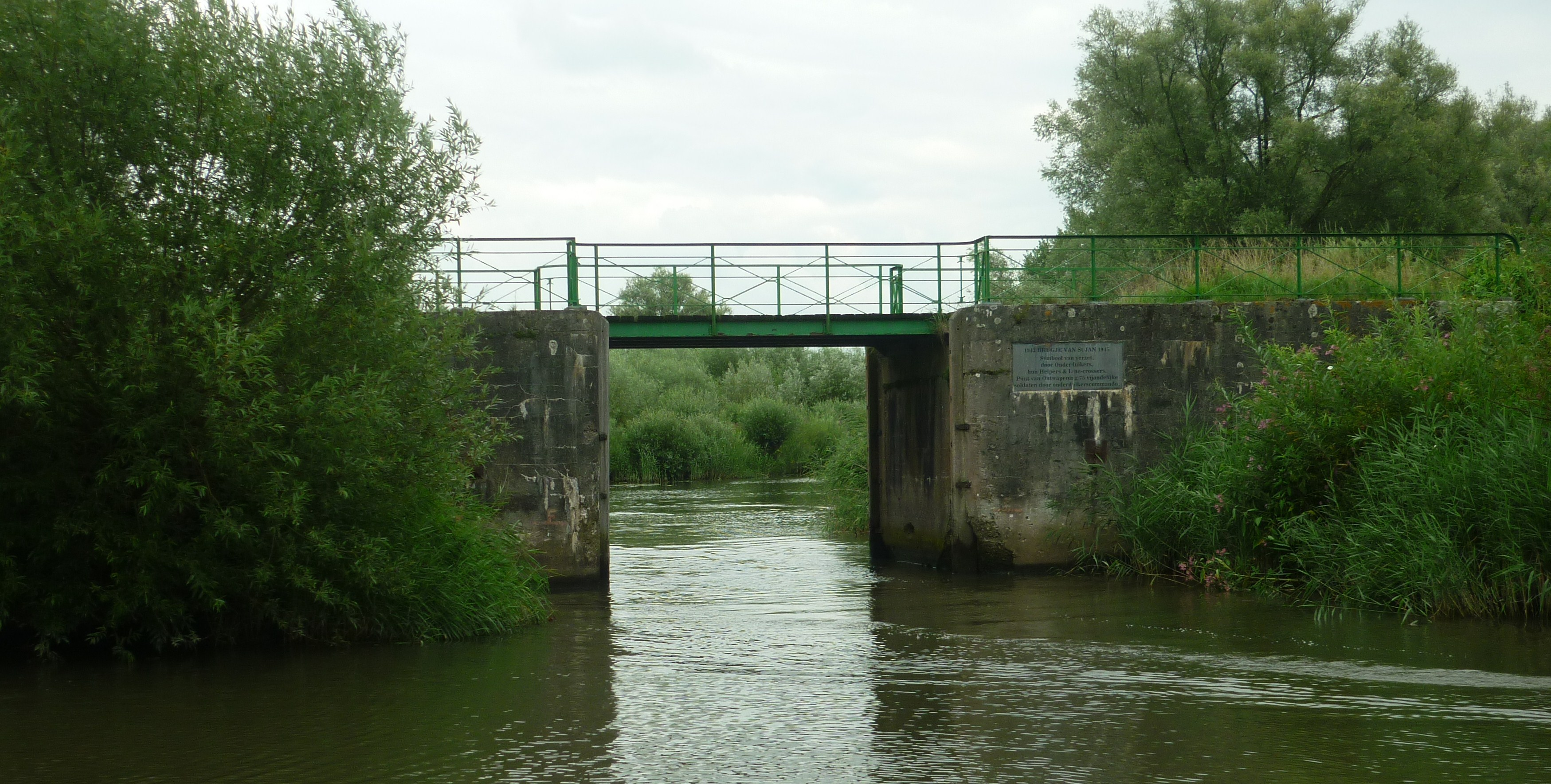 St John's bridge in the Biesbosch